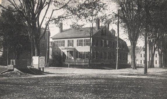 Scanned and modified by me from postcard in public domain (published pre-1923, reproducing photograph created before 1915 addition was built at rear of building)